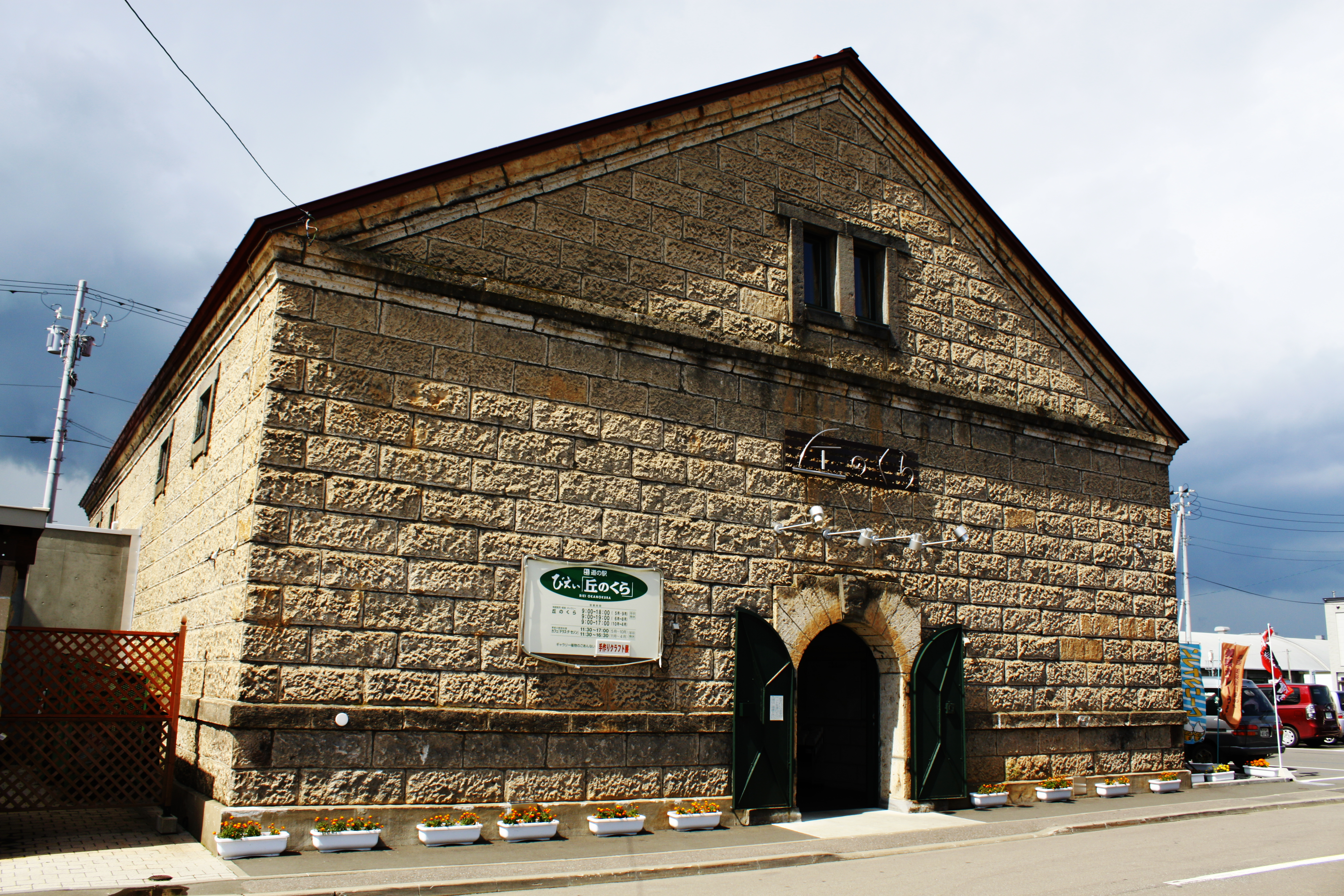 Roadside station Biei Okanokura in Biei, Hokkaido, Japan.